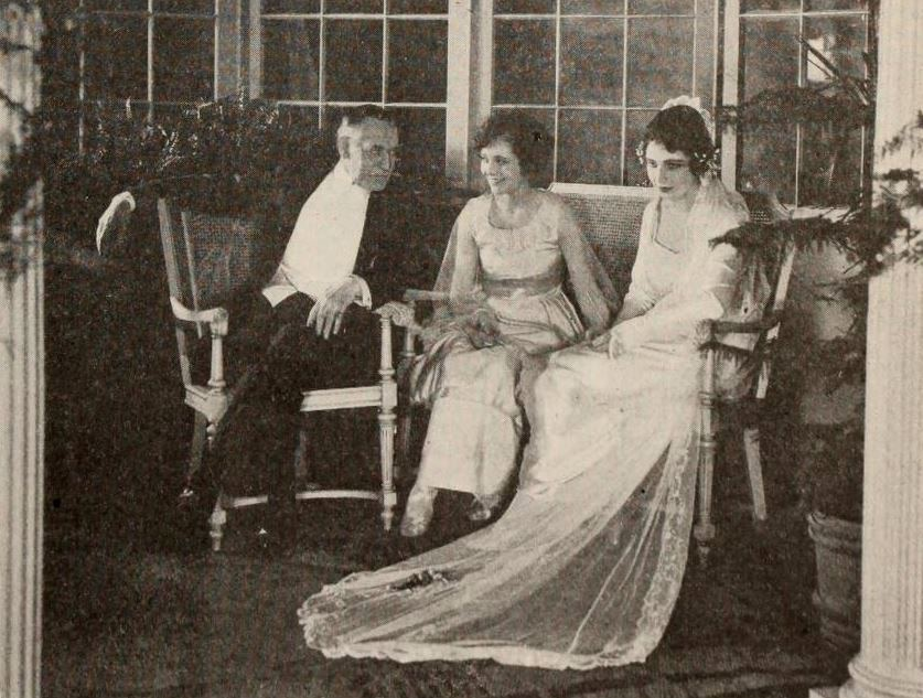 Still from the American drama film The Master Man (1919) with Frank Keenan, an unidentified actress, and Kathleen Kirkham, on page 41 of the May 31, 1919 Exhibitors Herald.